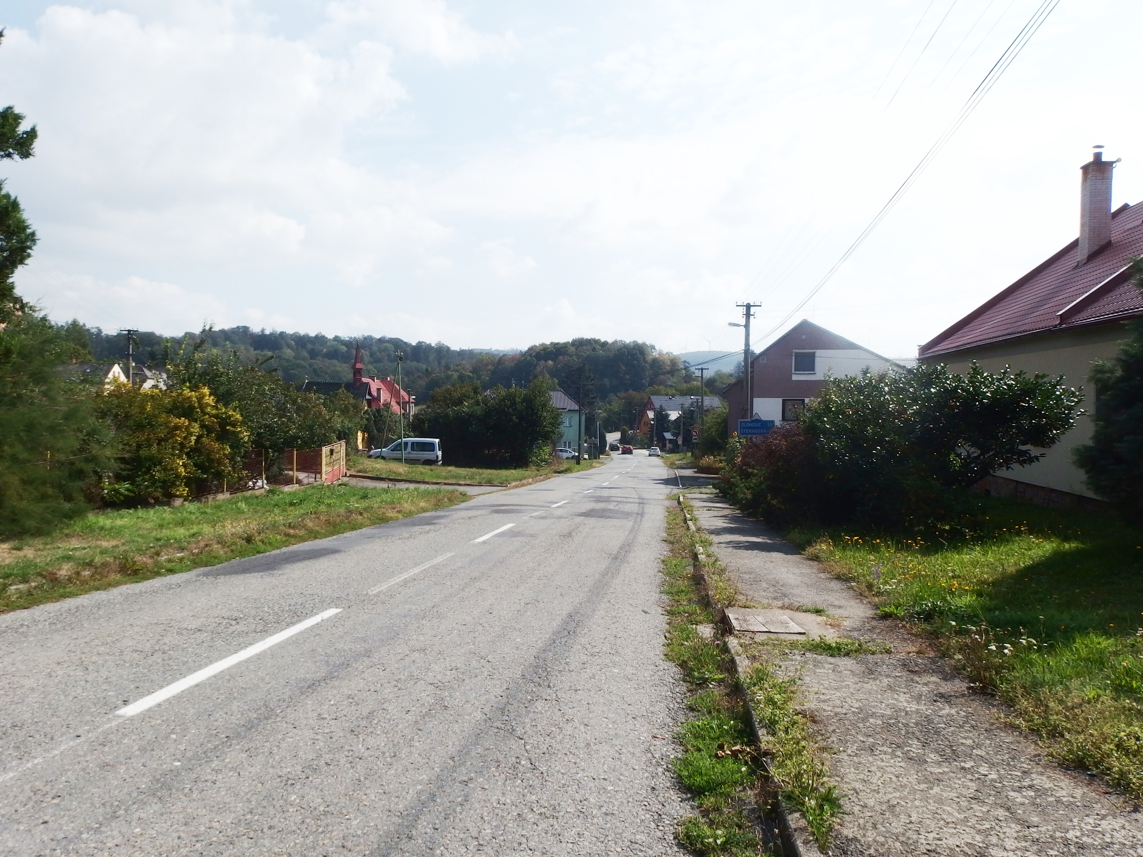 Šternberk, Olomouc District, Czech Republic, part Chabičov.